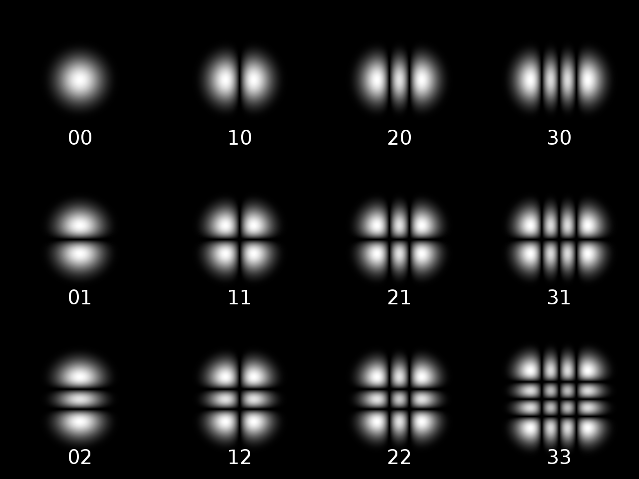 Hermite-Gaussian transverse mode patterns. Bigger and better version created with the help of the Python script below